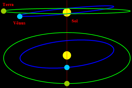 Diagram showing how transits of Venus occur and why they don't occur frequently.